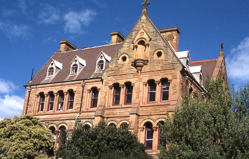 Catholic Friary, Victoria Street (before demolition), Waverley, New South Wales, Sydney